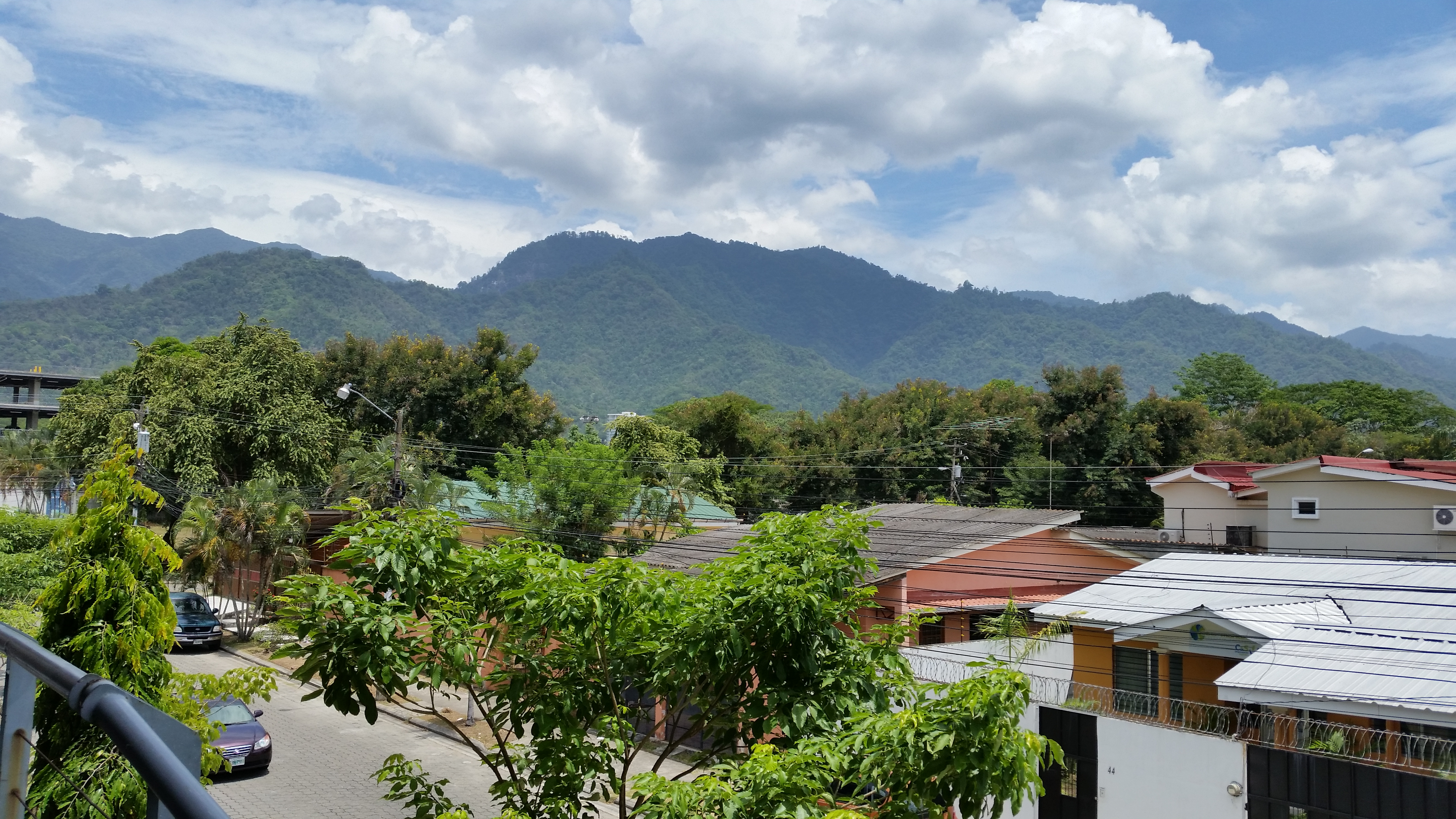 Residential neighborhood in San Pedro Sula Honduras